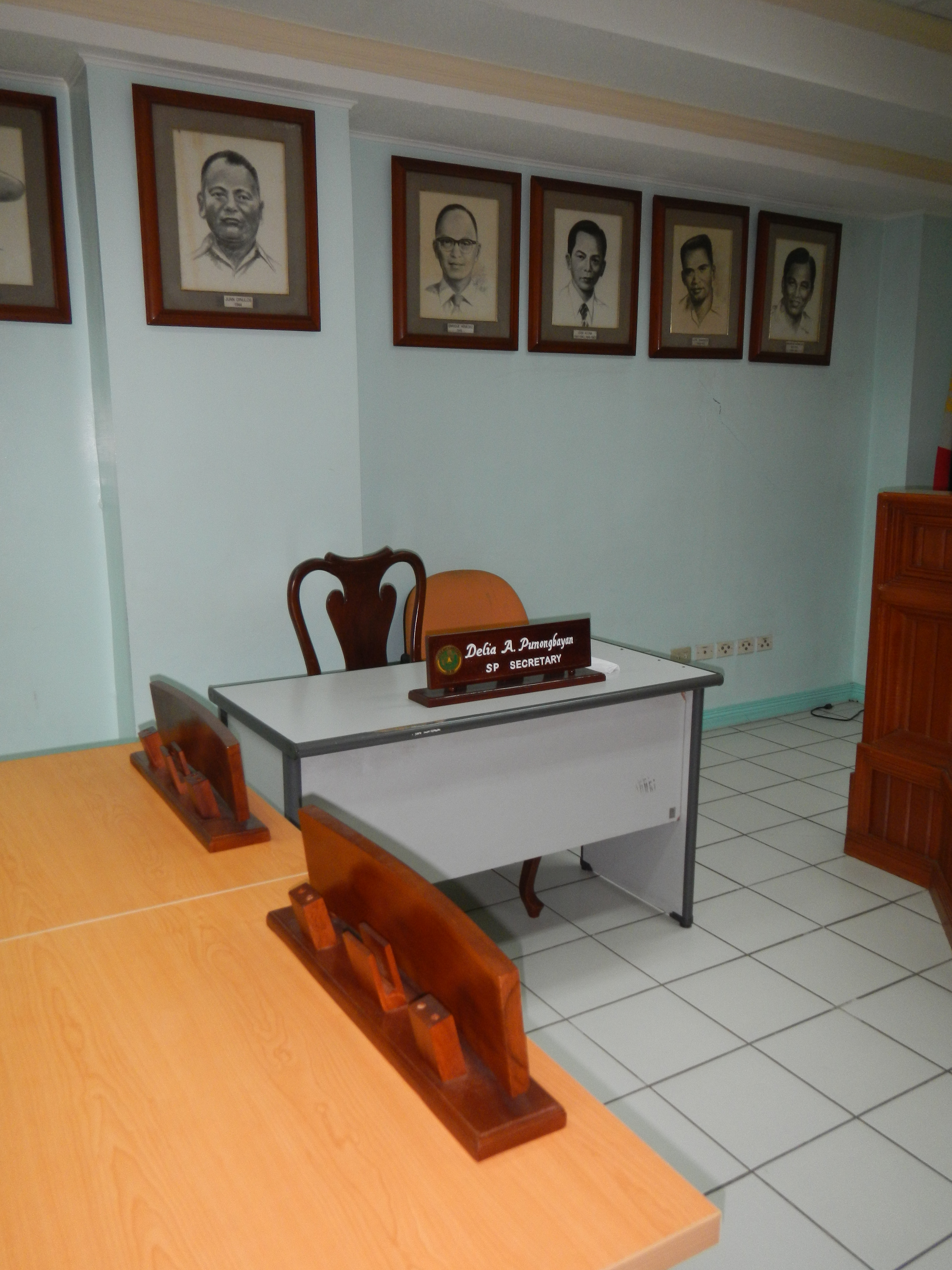 UploadWizard photos --- (general description) of (landmarks, heritage, culture, comprehensive, photography) of -- the -- Cabuyao City Hall[1] located in Brgy. Sala, Cabuyao [2] Cabuyao City, Laguna Coordinates:14°16'17"N 121°7'27"E homes the Cabuyao City Hall, Cabuyao City Police Station, Cabuyao City Jail and Cabuyao Fire Station. --- Cabuyao[3] (City of Cabuyao is a first class city in the western portion of Laguna, Philippines - 2010 Census, population of 248,436 inhabitants, area: 43.3 km²Website Cabuyao, Laguna, is newest city President Benigno Aquino, on May 16, 2012, signed the executive order directing the conversion of Cabuyao to a component city under Republic Act No. 10163 -[4] Coordinates: 14°15'0"N 121°6'20"E).